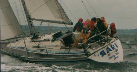 Sailing yacht of brand/type Comfortina 32 under 12m/sec conditions